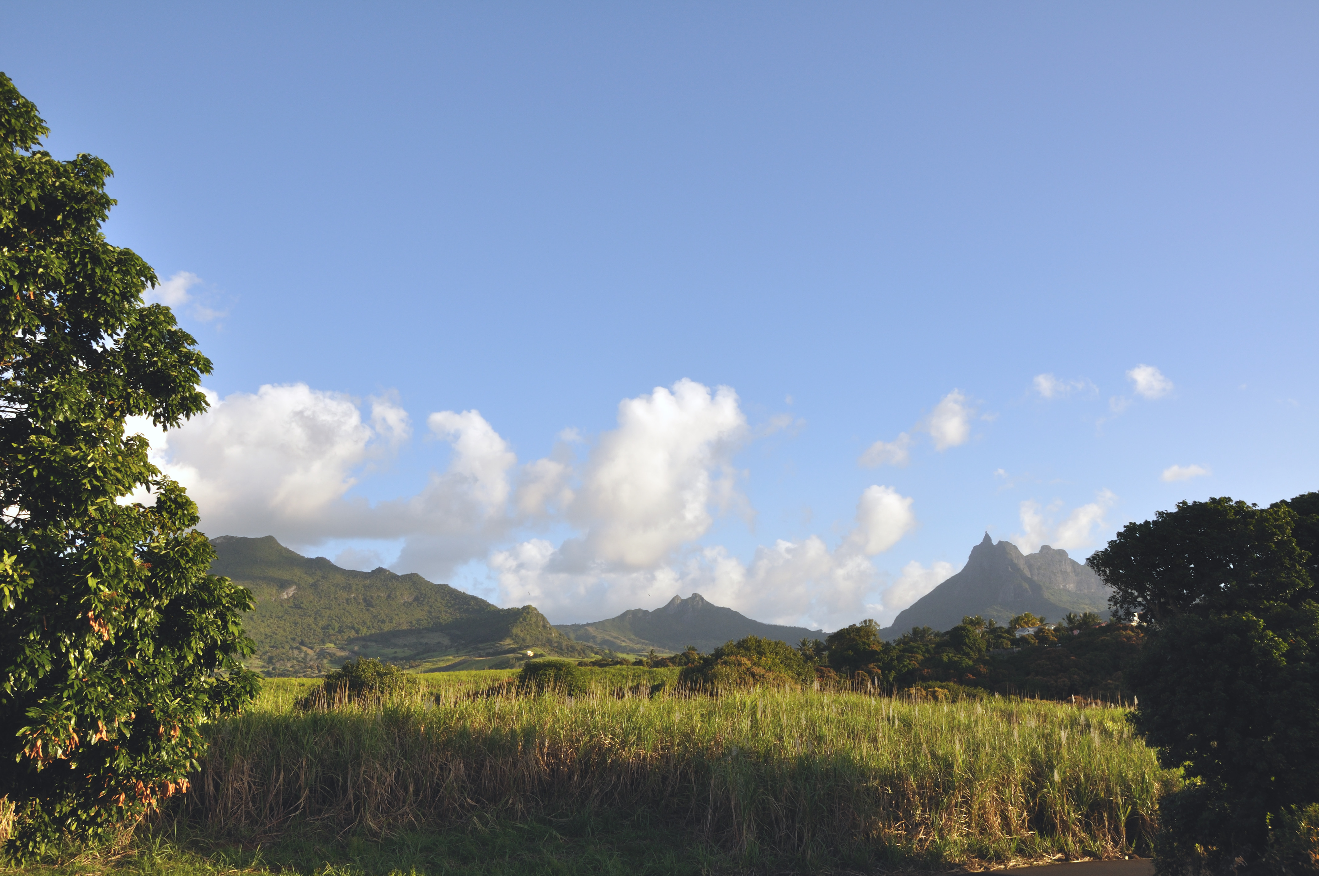 Mauritius, Sugar cane near Long Mountain